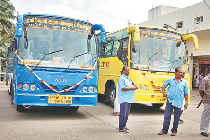 Older SETC buses (before 2011)